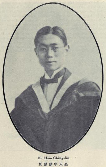 Xia Jinlin (1896-?)